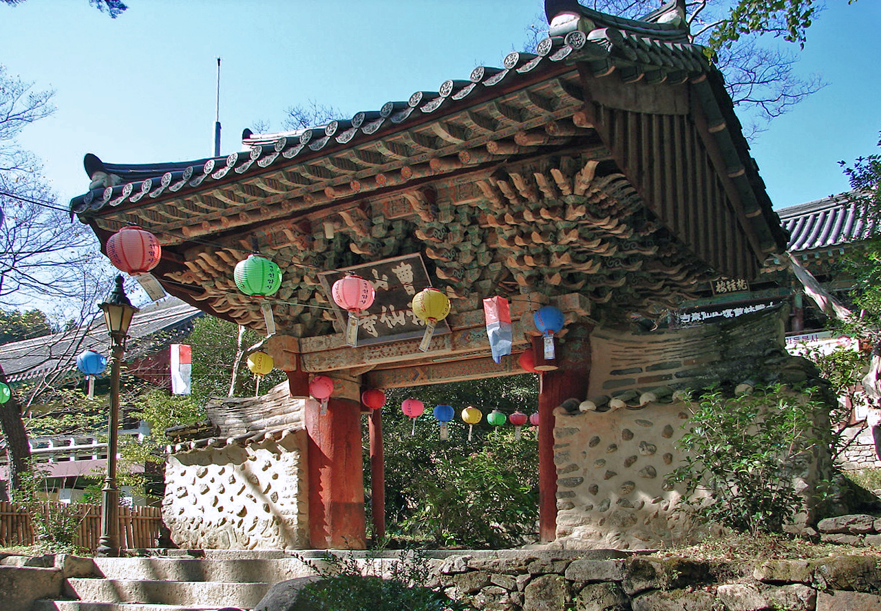 Iljumun is the first gate at the entrance to many Korean Buddhist temples. Called the "one-pillar gate", because when viewed from the side the gate appears to be supported by a single pillar. The partly obscured plaque reads (vertically from upper right) Jogyesan Seonamsa (曺溪山 仙巖寺), meaning ‘Seonam Temple on Mount Jogye’. According to the records from the "Message for the framework-raising ceremony of Jogye Gate" the original structure was destroyed by fire and restored in 1540. It was also recorded that the gate was again destroyed during the Byeongja Horan battle and rebuilt in 1719. Seonamsa Iljumun, One-Pillar Gate, dates back to the Joseon Dynasty and is Cultural Treasure #96.